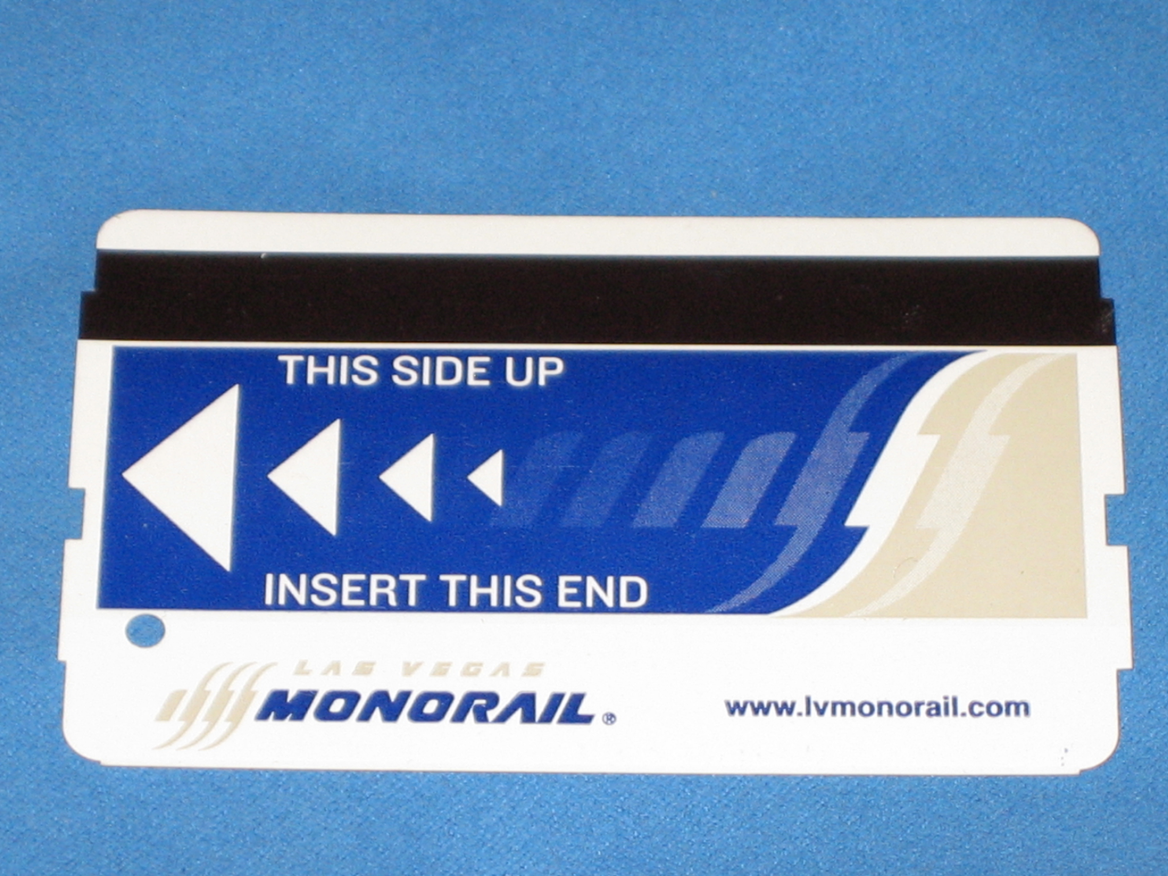 Front of Las Vegas Monorail Ticket